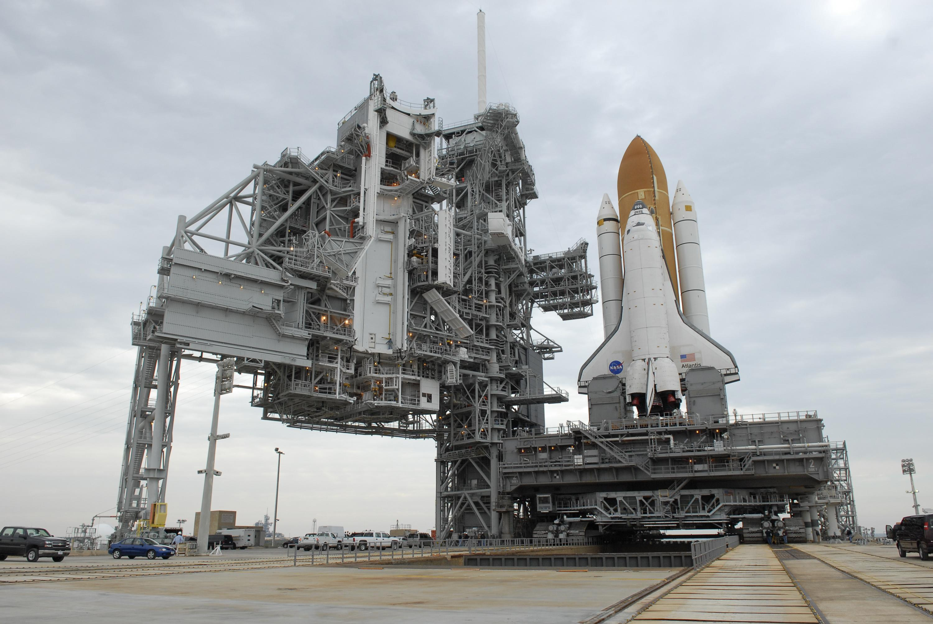 KENNEDY SPACE CENTER, FLA. -- Space Shuttle Atlantis arrives on the hardstand on Launch Pad 39A after a six-hour trek, via the crawler-transporter, from the Vehicle Assembly Building. The first motion out of the assembly building was at 8:19 a.m. At left is the open rotating service structure that will be rolled to enclose the shuttle for protection. Next to the shuttle is the fixed service structure. The mission payload aboard Space Shuttle Atlantis is the S3/S4 integrated truss structure, along with a third set of solar arrays and batteries. The crew of six astronauts will install the truss to continue assembly of the International Space Station. Launch is targeted for March 15.